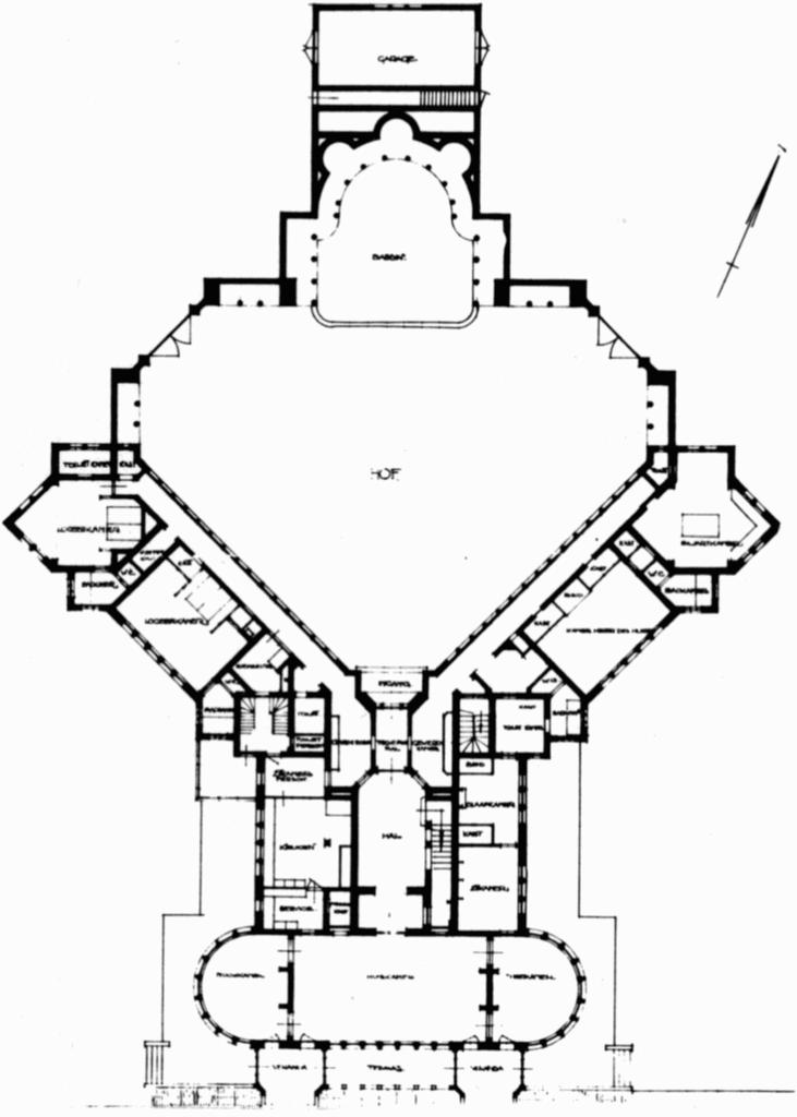 H.P. Berlage. Jachthuis St. Hubertus hunting lodge, Otterlo, plan ground floor [first, unexecuted design]. August 1915. Arnhem, Rijksgebouwendienst.